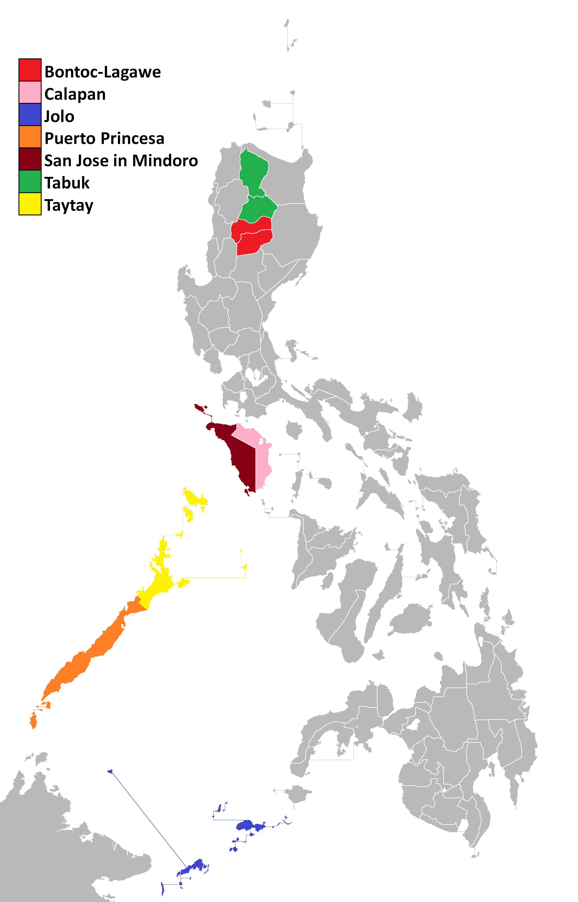 Jurisdictions of the different of the Roman Catholic apostolic vicariates in the Philippines.